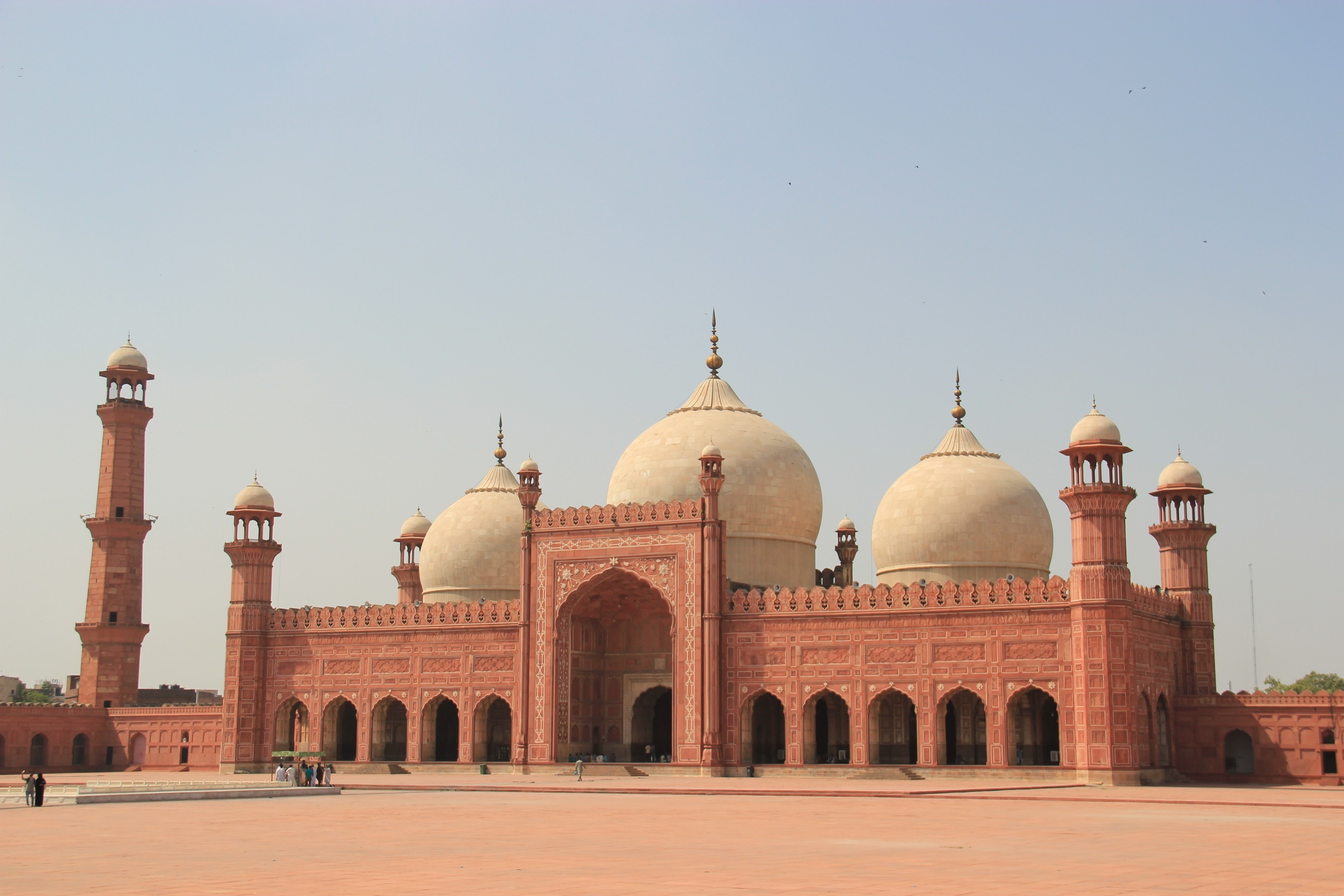 Badshahi Mosque (King’s Mosque) This is a photo of a monument in Pakistan identified as the PB-44